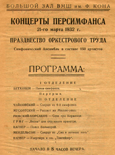 Concert programme of 1932 concert of Persimfans in Moscow